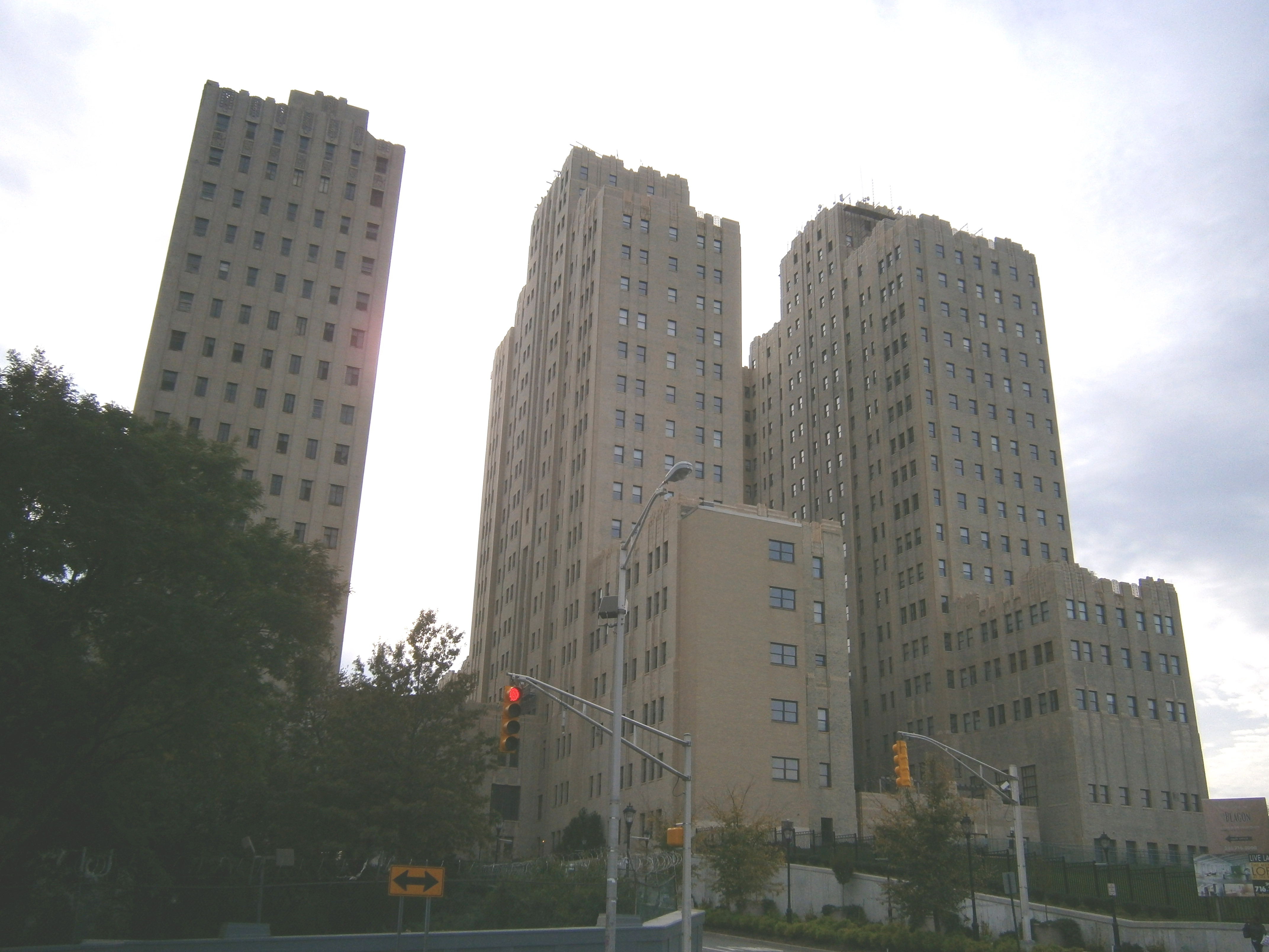 The fomer Jersey City Medical Center restored as residences, the Beacon